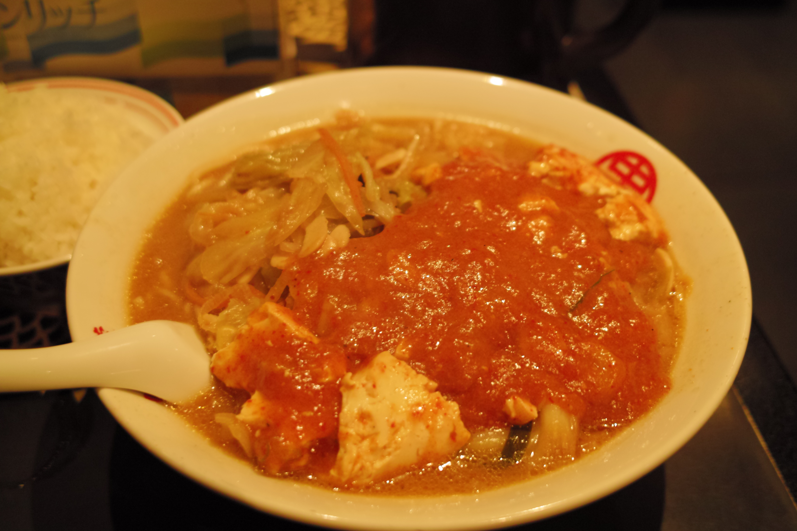 Moko Tanmen(蒙古タンメン) Jumbo